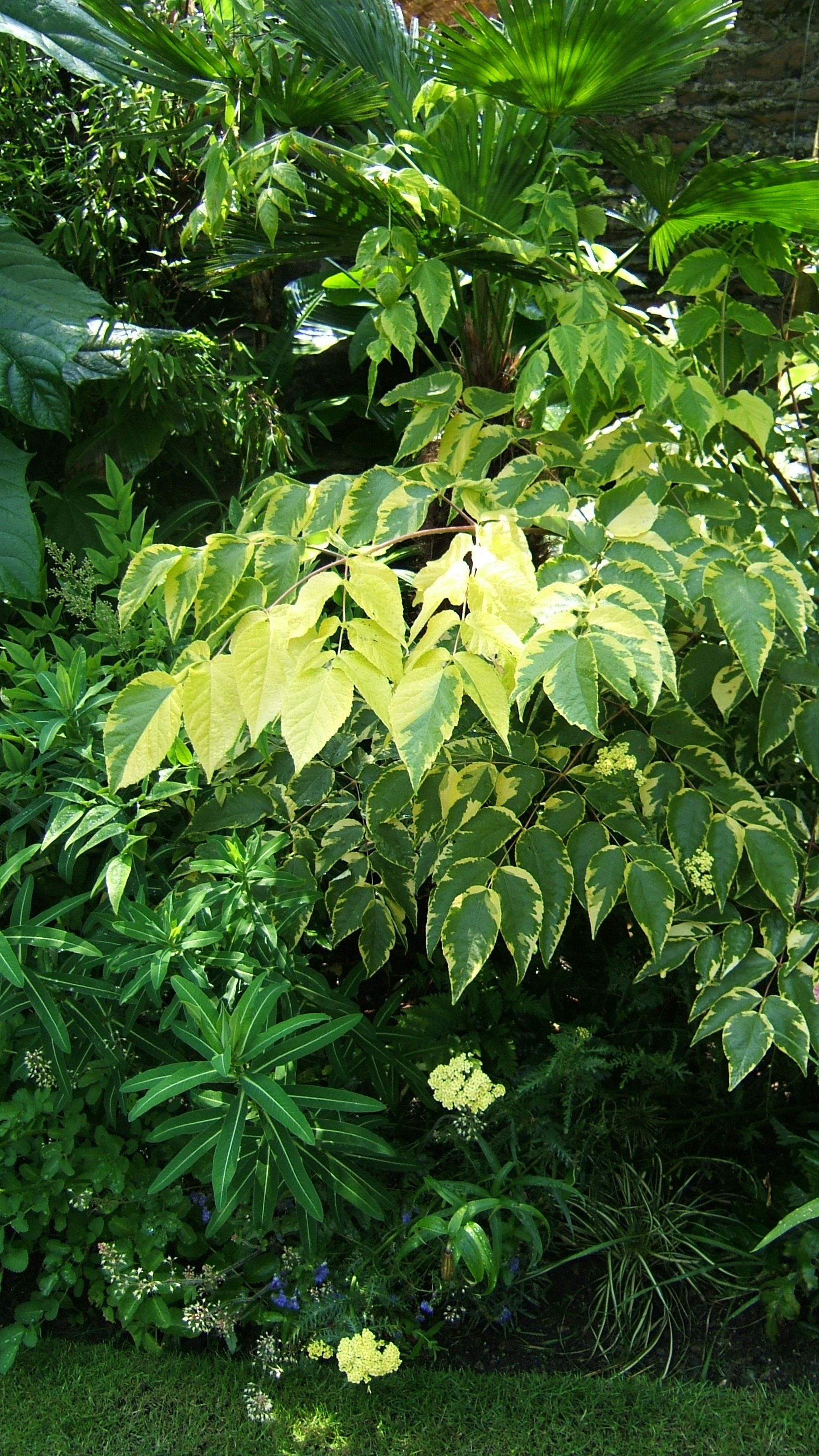 Variegated foliage used in an English garden. Plants shown include Aralia elata 'Aureovariegata' and Carex ornithopoda 'Variegata'. Garden designed by and photograph taken by User:Jasper33